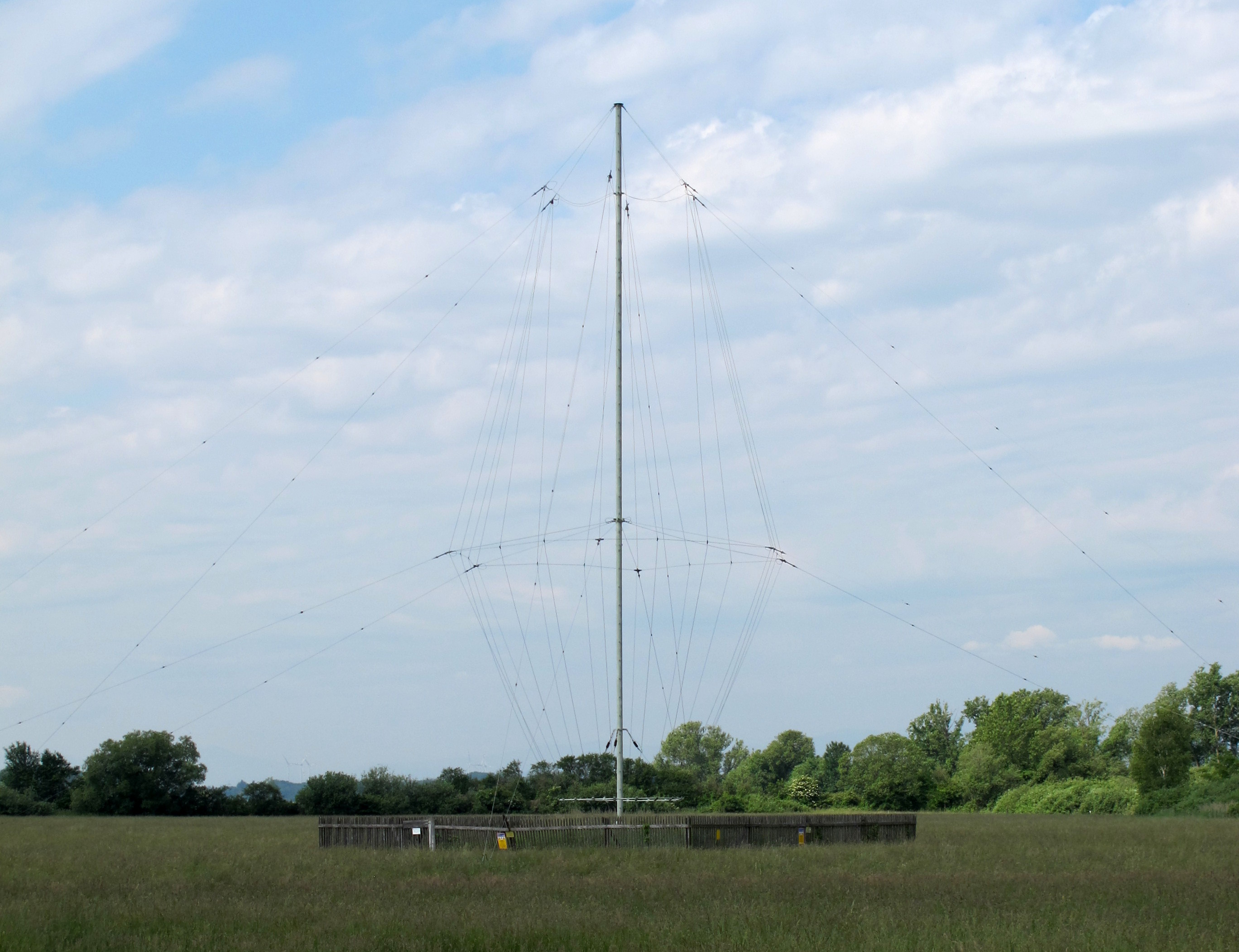 Vertical wire cage antenna at the Moosbrunn shortwave transmitting station of the Austrian Broadcasting Service (Österreichischen Rundfunksender GmbH, ORS), Moosbrunn, Austria. This is probably a conical monopole antenna, a broadband omnidirectional antenna widely used in the high frequency (HF) band. It consists of equally spaced wire radiators arranged around the central mast in the form of two cones base-to-base.